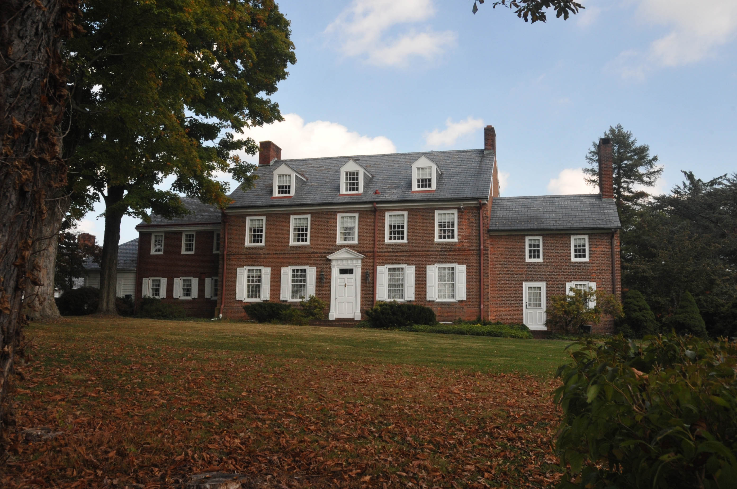 JOHN BURROUGHS FARMSTEAD; CENTER PORTION AND EAST WING DATE TO 1800 AND THE WEST WING (3 BAYS) FROM 1936. THIS SITE IS LOCATED AT 1132 BEAR TAVERN ROAD